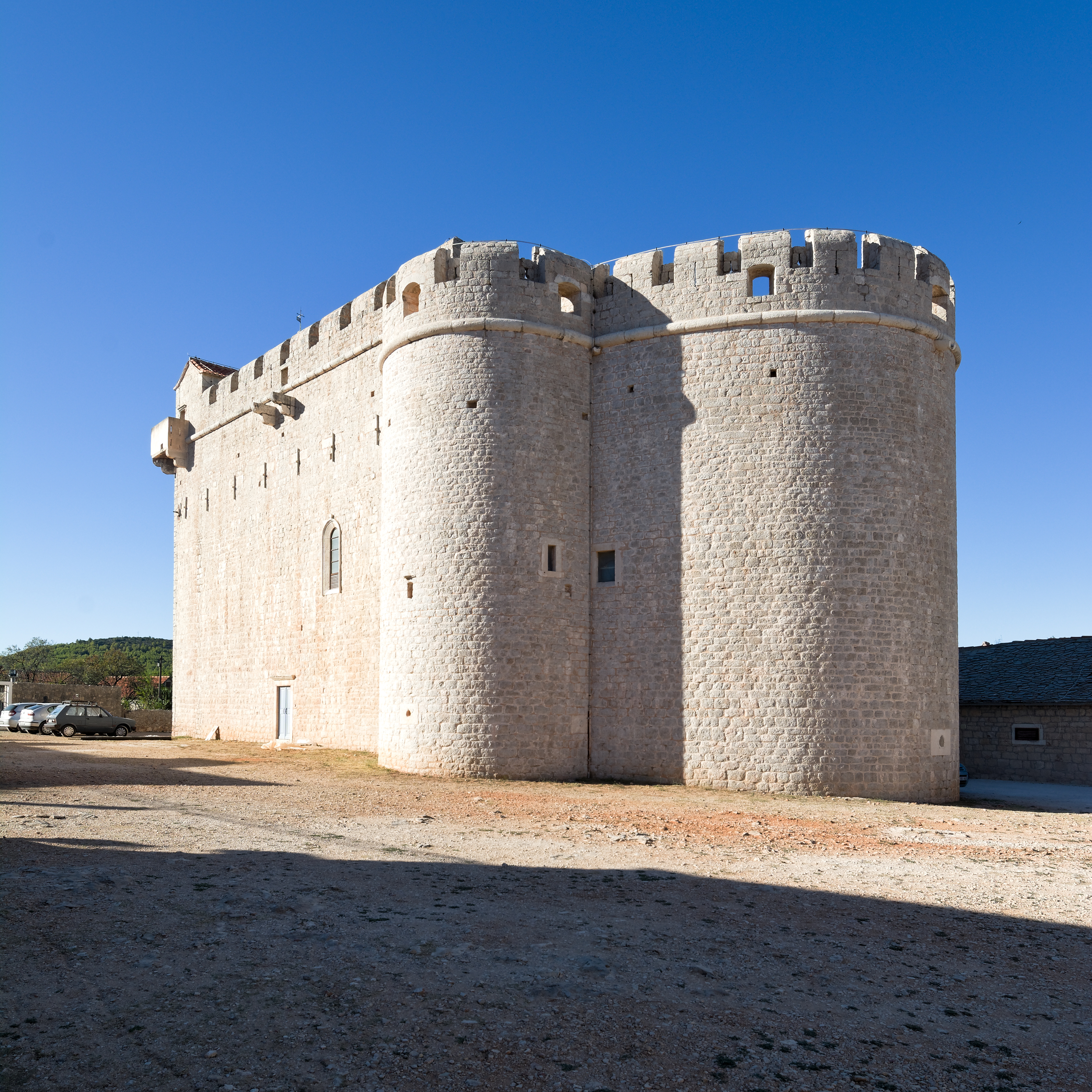 The fortress church of St. Mary of Mercy in Vrboska, Hvar island, Croatia.